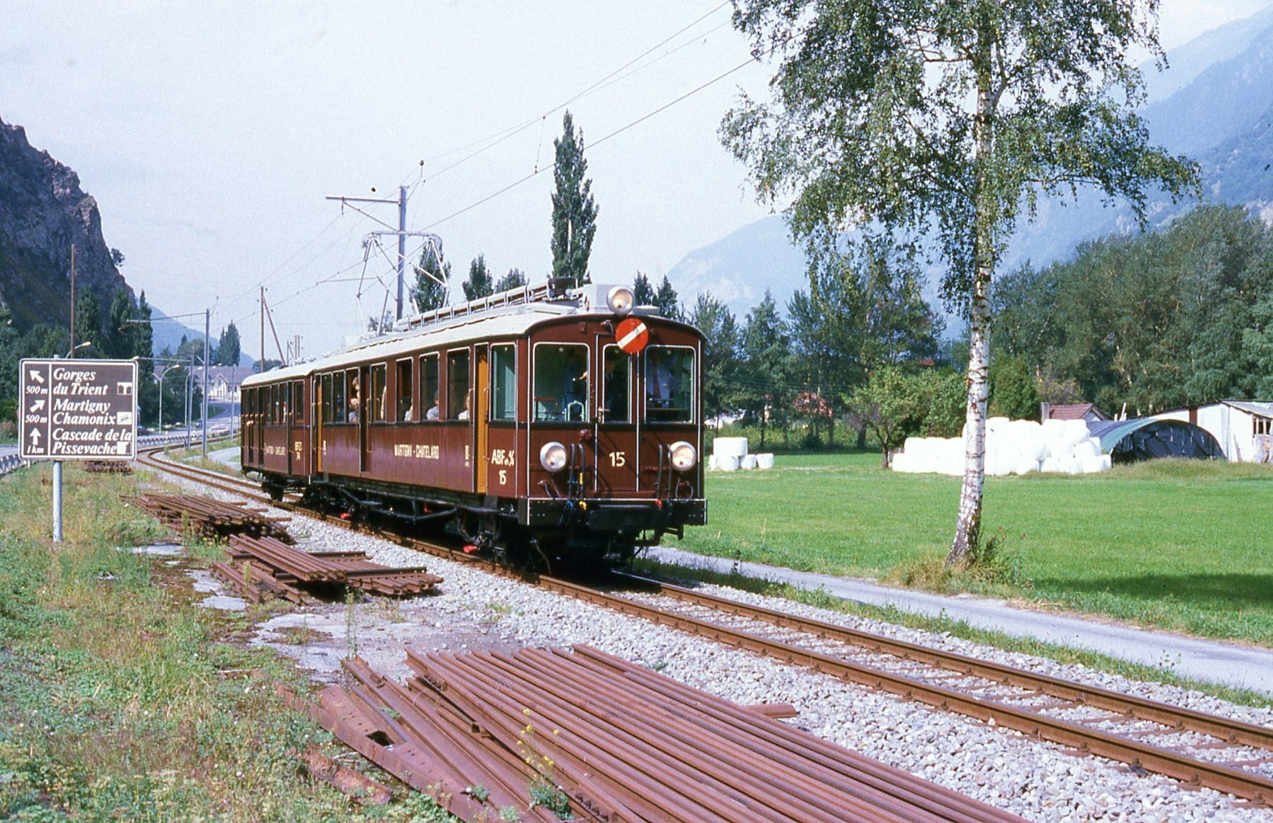 Photo: Trams aux Fils.